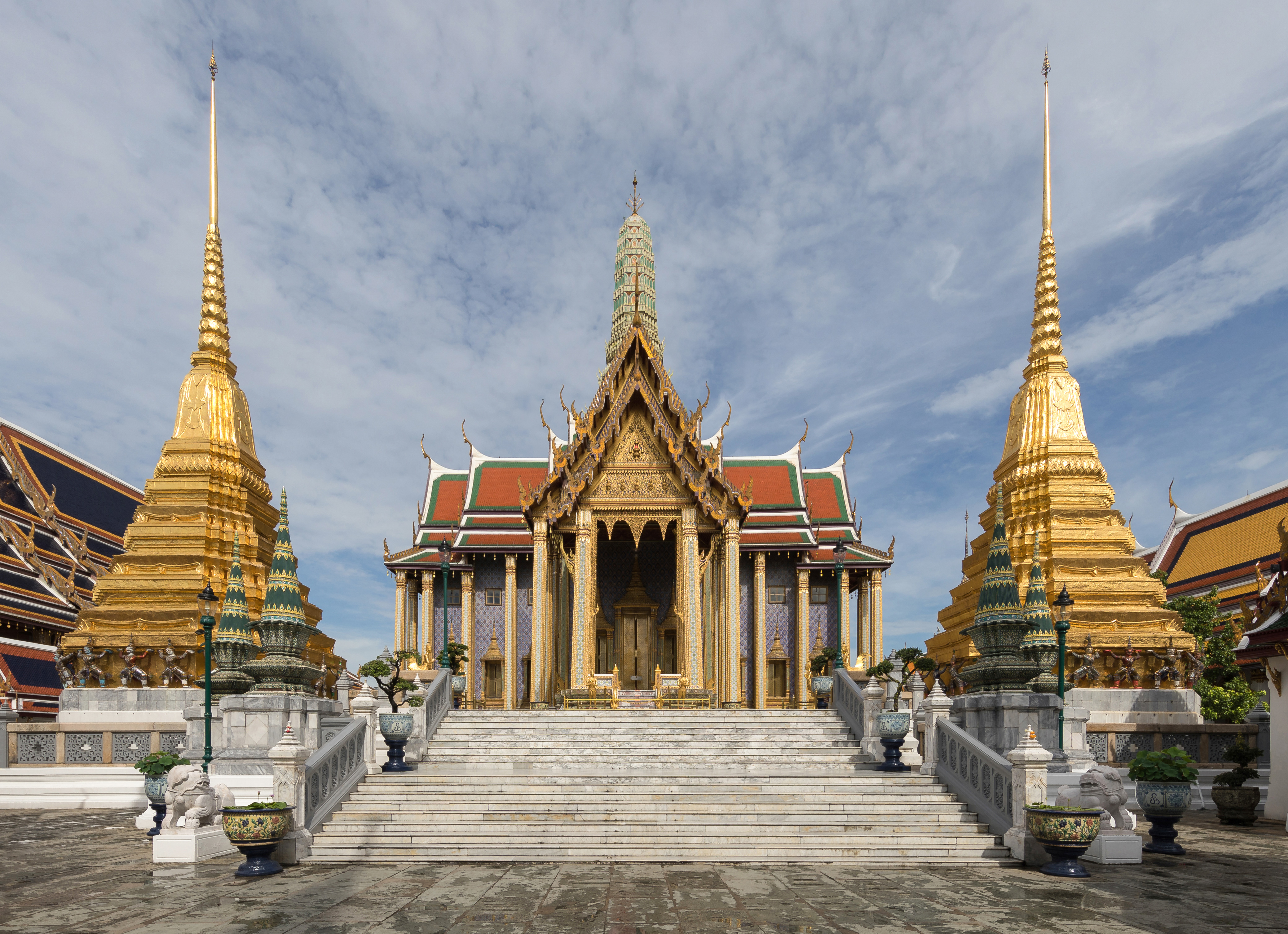 Eastern view of Prasat Phra Thep Bidorn (center) and two Golden Chedis (on the left and right) in Wat Phra Kaew, Temple of Emerald Buddha, front view, within the precincts of the Grand Palace, in Bangkok, Thailand.